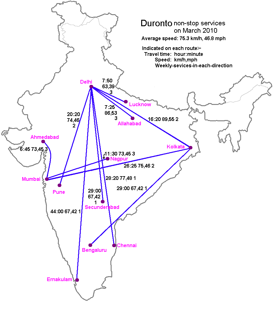 Indian Railways Duronto weekly services map, travel time and speed.